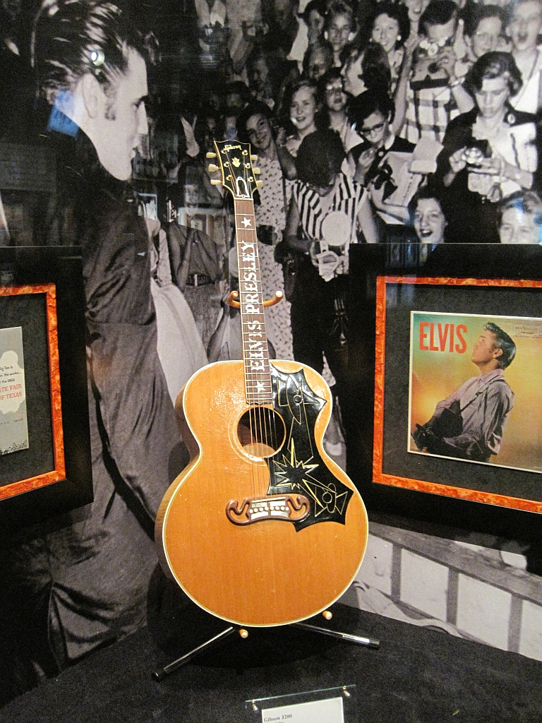 Graceland, Memphis, Tennessee. Trophy room